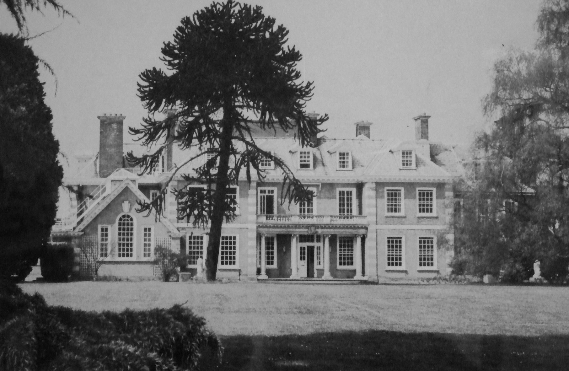 Michaelstow Hall, Ramsey, Essex. Constructed for Squire Garland in 1903.